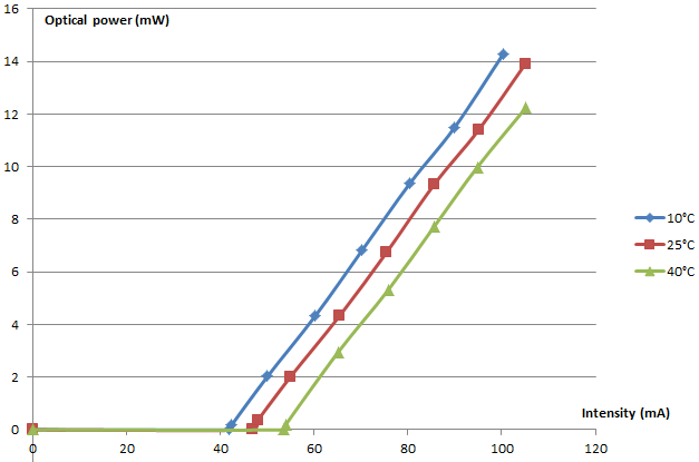 Example of evolution of a laser diode caracteristic in function of the temperature